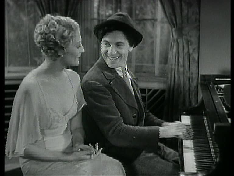 Screenshot of Thelma Todd and Chico Marx from the film Horse Feathers (1932).